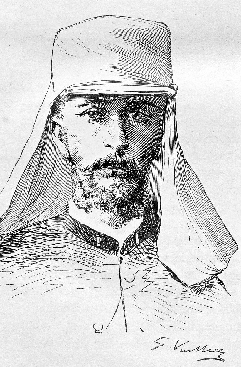 Captain Laperrine, chasseurs d'Afrique, who distinguished himself in the Bac Le ambush, 24 June 1884